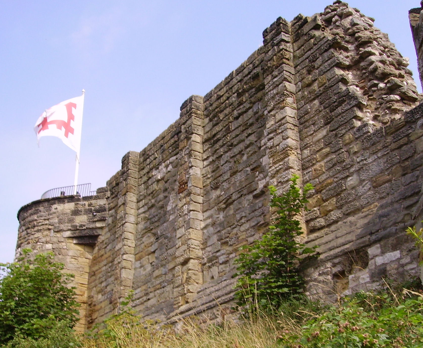 view of Scarborough castle in North Yorkshire, United Kingdom